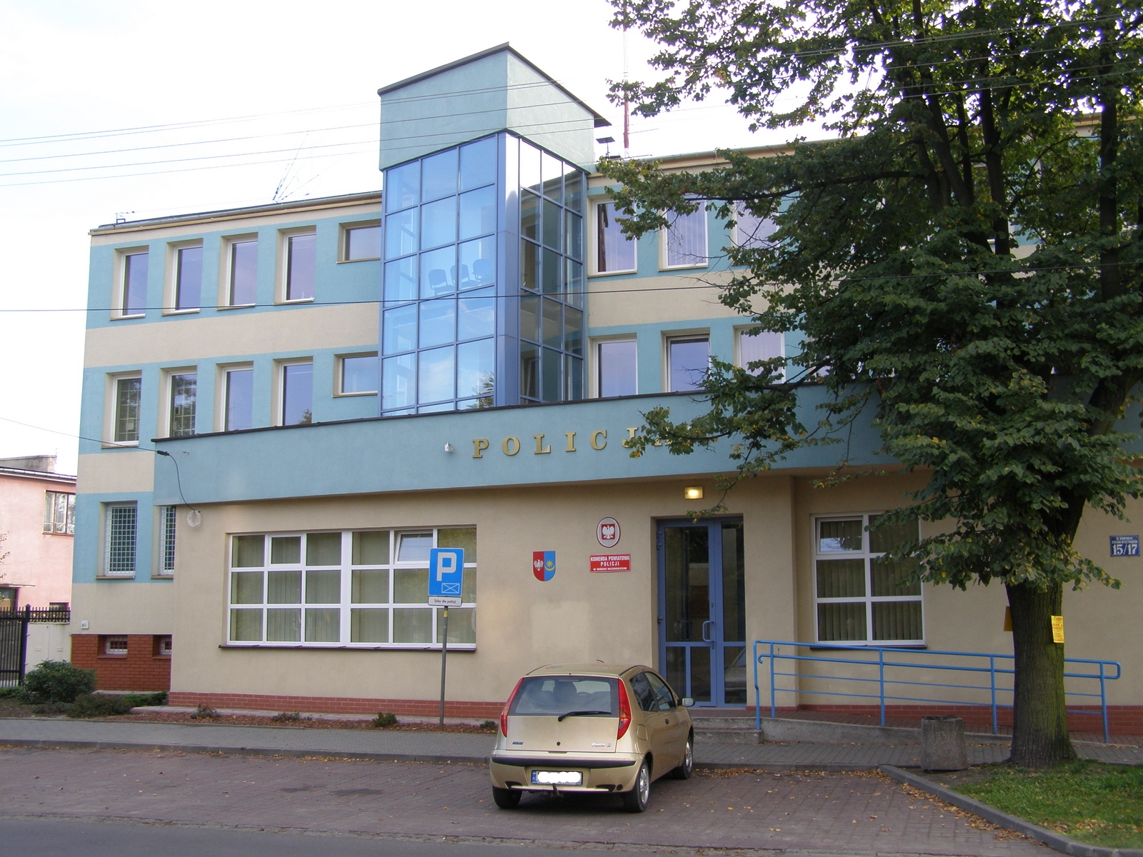 Mińsk Mazowiecki Police Departament.